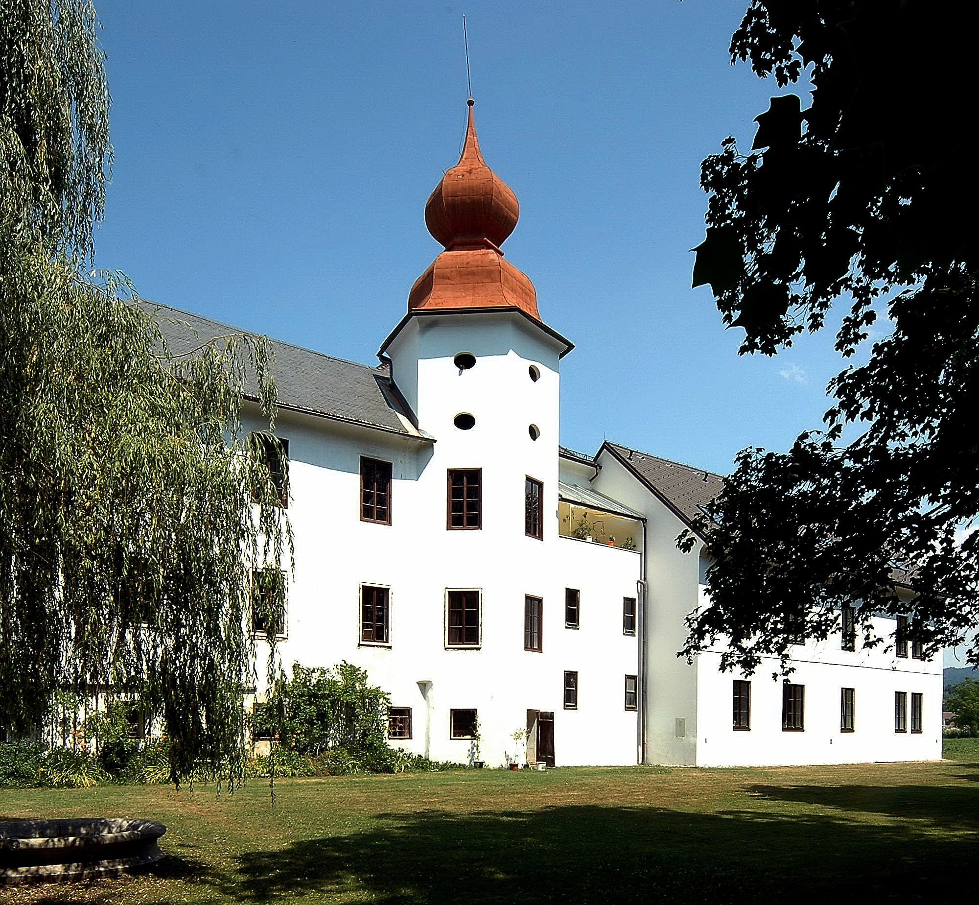 Castle Ehrenhausen on Suppanstrasse #69, in 9th district "Annabichl", municipality Klagenfurt on the Lake Woerth, Carinthia, Austria, EU